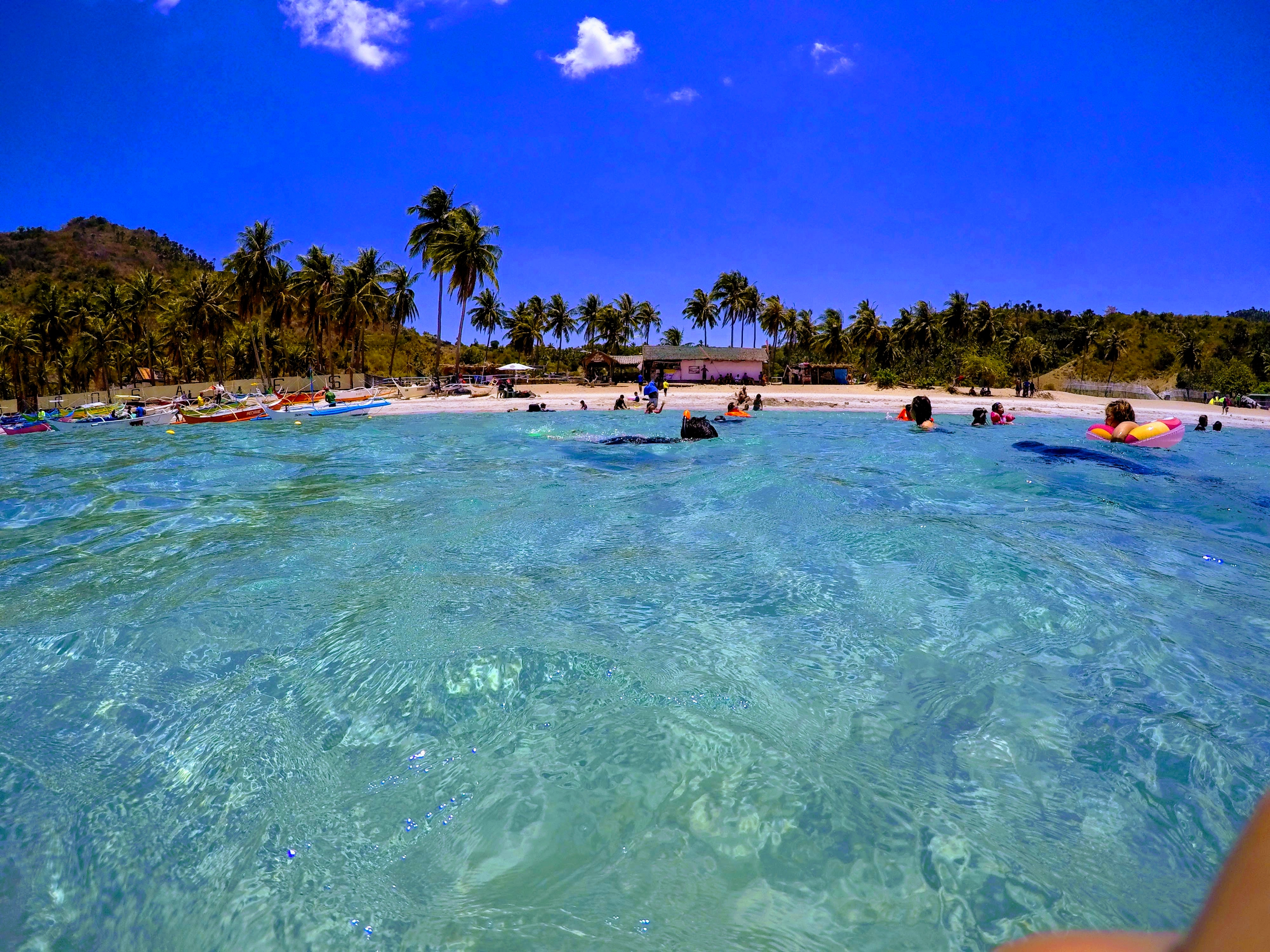 You can snorkle and swim with Sea Turtles (Pawikans). This beach is such a bomb with all the white sand and specially it's crystal clear waters.